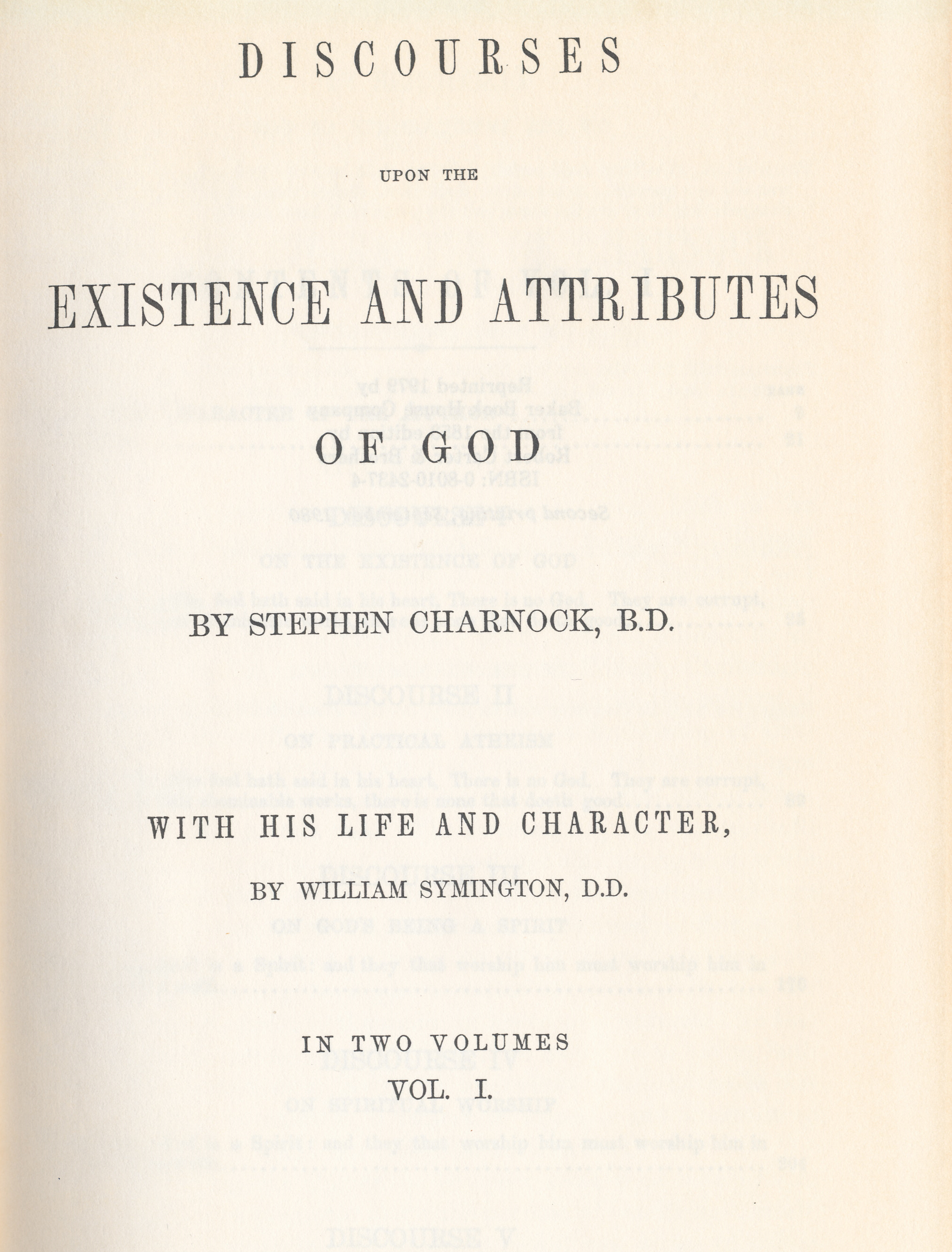 Title page of Charnock's magnum opus, The Existence and Attributes of God. Image taken from a reprint edition printed in the 20th century